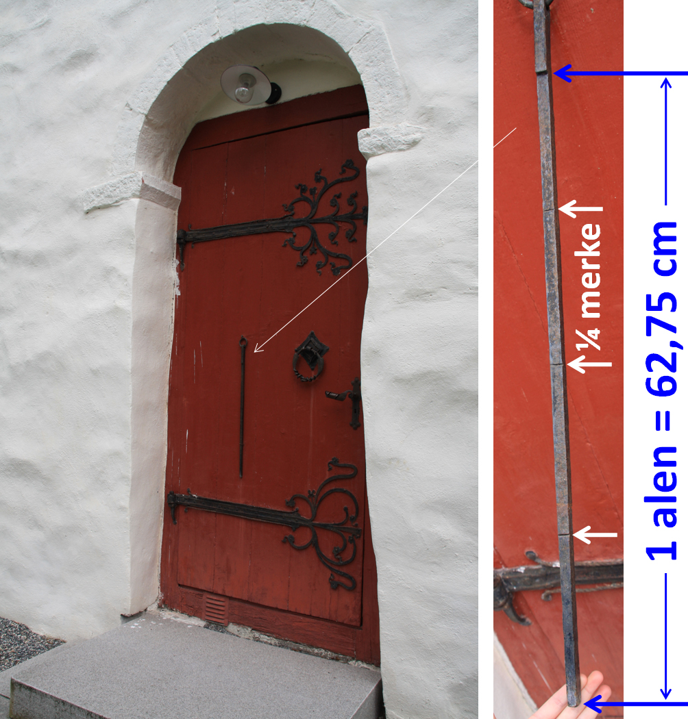 Norwegian cubit rule (alenstav) mounted on a church door.